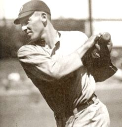 Cropped photograph of Ira Flagstead, Detroit Tigers right fielder, circa 1920. The source of this image is a photograph of Flagstead believed to be in the public domain due to publication prior to 1923. The image is a cropped version of the photograph, so that it does not include the full image, and is low resolution.